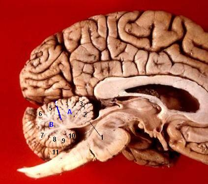 Human brain - midsagittal view - cerebellum Velum medullare superius, Lingula cerebelli Lobulus centralis Culmen Fissura prima Declive Folium vermis Tuber vermis Pyramis vermis Uvula vermis Nodulus Tonsilla cerebelli A: Lobus cerebelli anterior, B: Lobus cerebelli posterior, 10: Lobulus flocculonodularis The anterior– posterior divisions (Lobes) are best seen in a midsagittal cut through the vermis. The Anterior Lobe Occupies the vermis and hemispheres rostral to the Primary Fissure. The Posterior Lobe makes up the bulk of the cerebellum, comprising the remaining vermis and hemispheres from the Primary Fissure to the Posterolateral Fissure. The latter fissure separates the Posterior lobe from the Flocculonodular Lobe. The Flocculonodular Lobe (Archicerebellum) is the oldest part of the cerebellum and connects with the vestibular system to coordinate balance and equilibrium. The Anterior Lobe (Paleocerebellum) is associated with the development and coordination of the limbs. The Posterior Lobe (Neocerebellum) developed in association with the development of the cerebral cortex and is associated with the coordination of complex skilled movements. (font: arial black, size: 10)